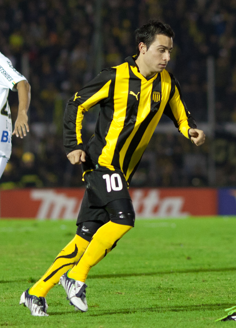 Alejandro Martinuccio, argentinian football player during the Copa Libertadores match CA Peñarol v. Santos FC